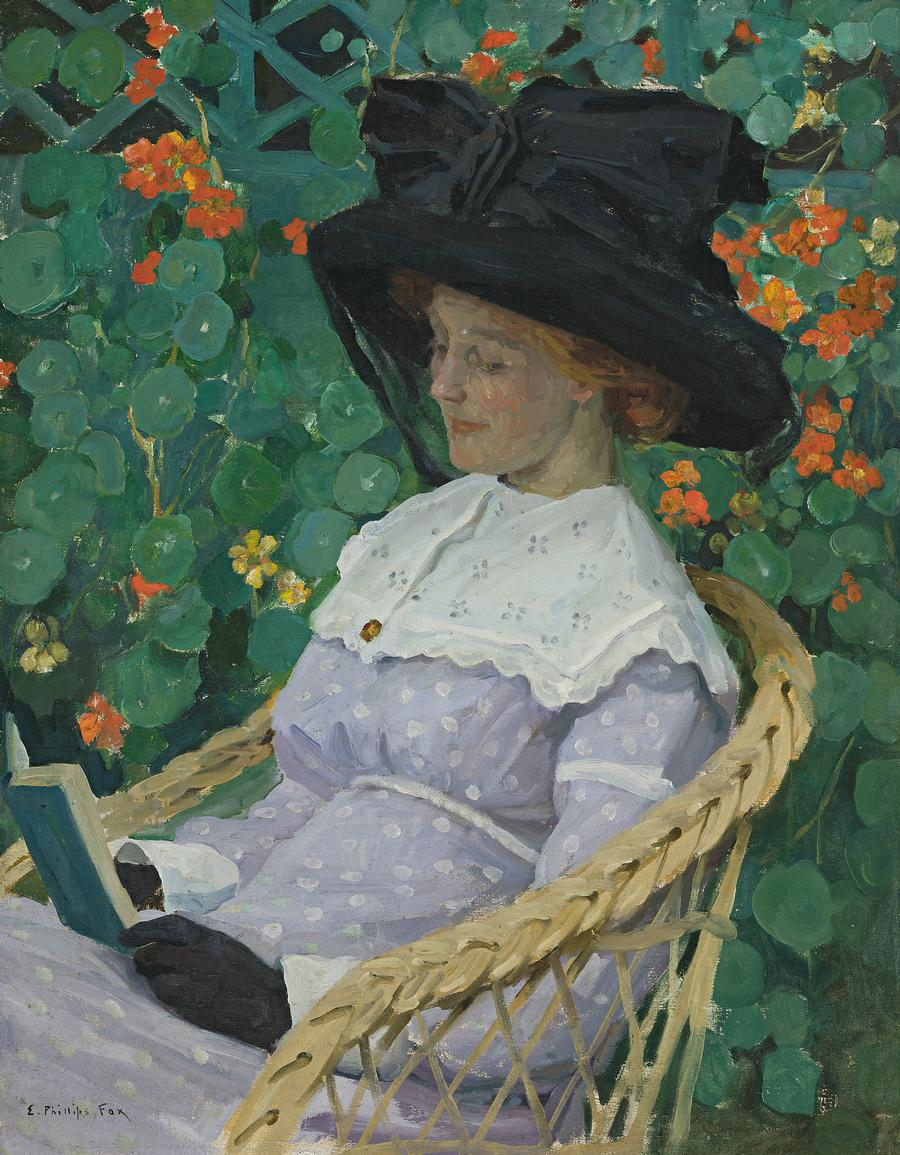 Nasturtiums